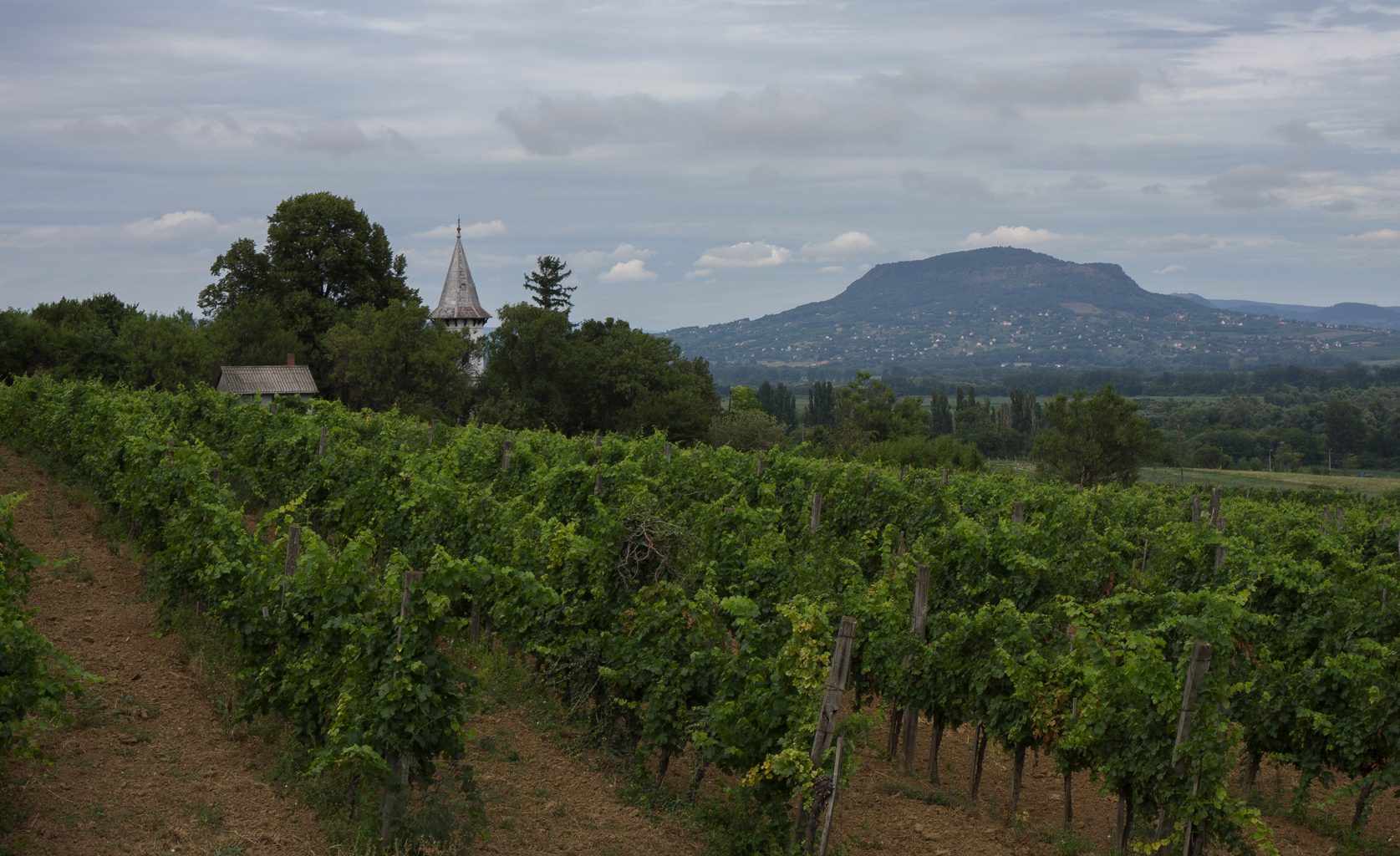 Grape fields and the Badacsony at Balaton